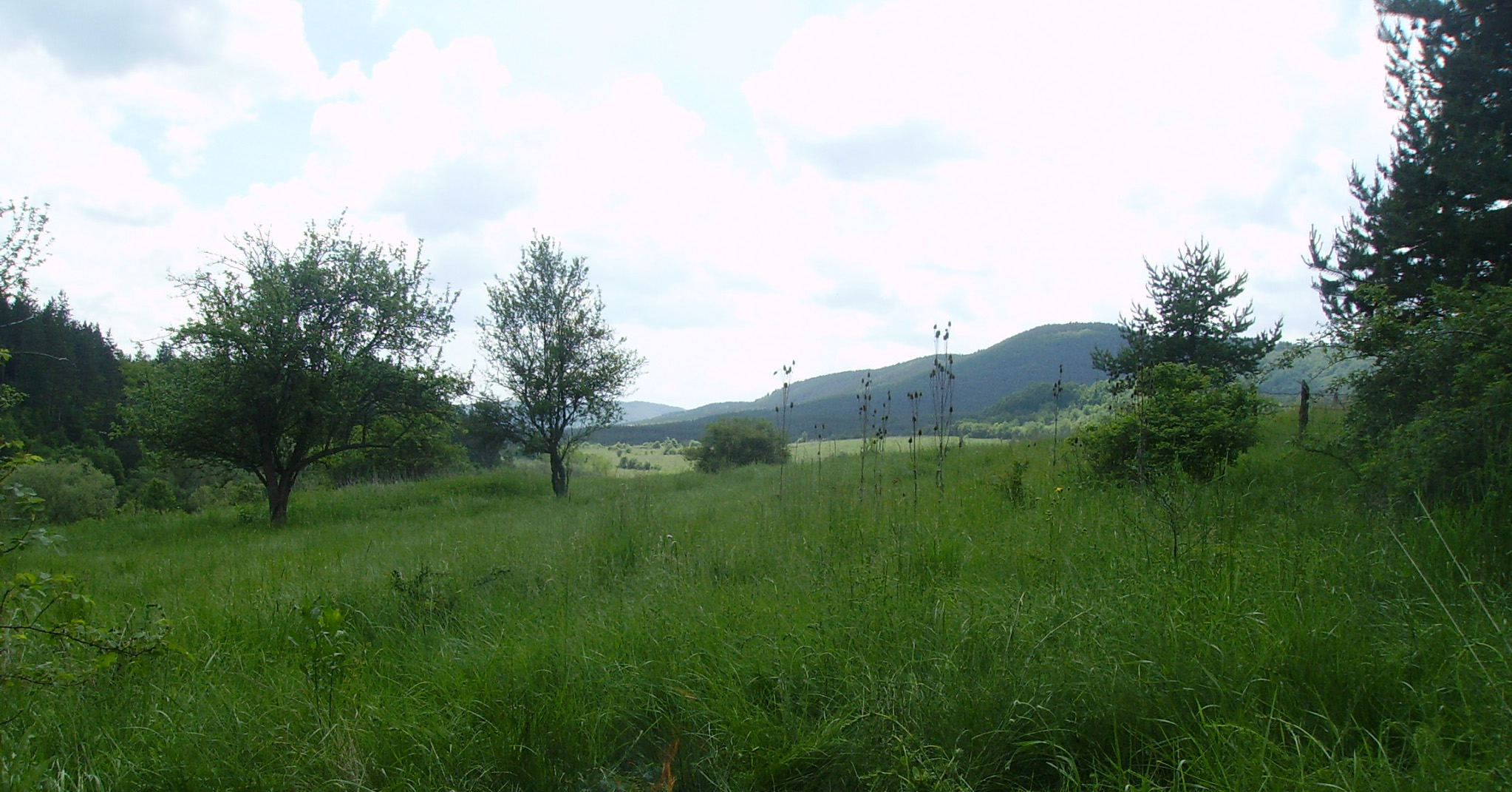 Panorama from village Gorochetsi, Bulgaria